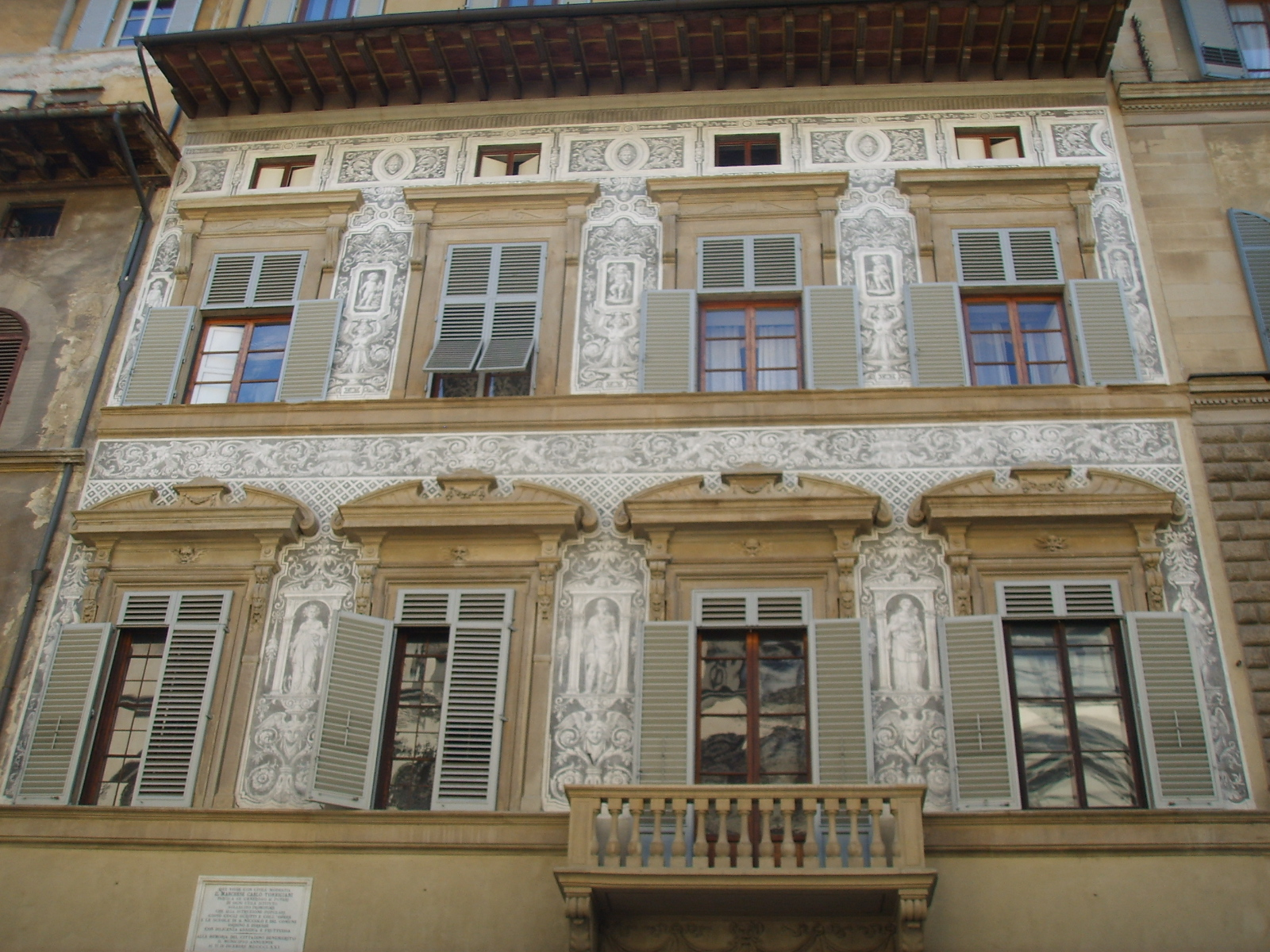 Graffito decoration on the facade of "Palazzo Nasi" palace (now a part of "Palazzo Torrigiani Del Nero" palace) in Piazza dei Mozzi square in Florence, Italy.